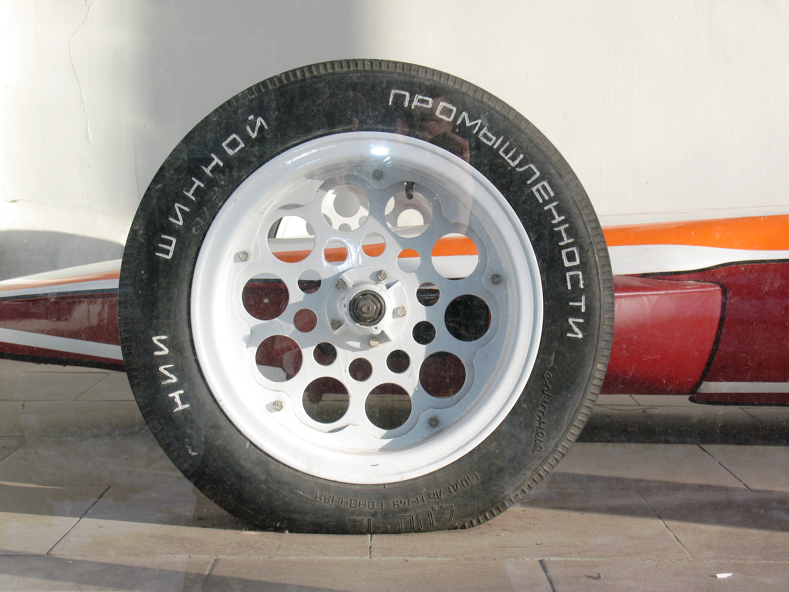 Automobile KhADI-27 (USSR) in Kharkov. Chernyshevskaya street.